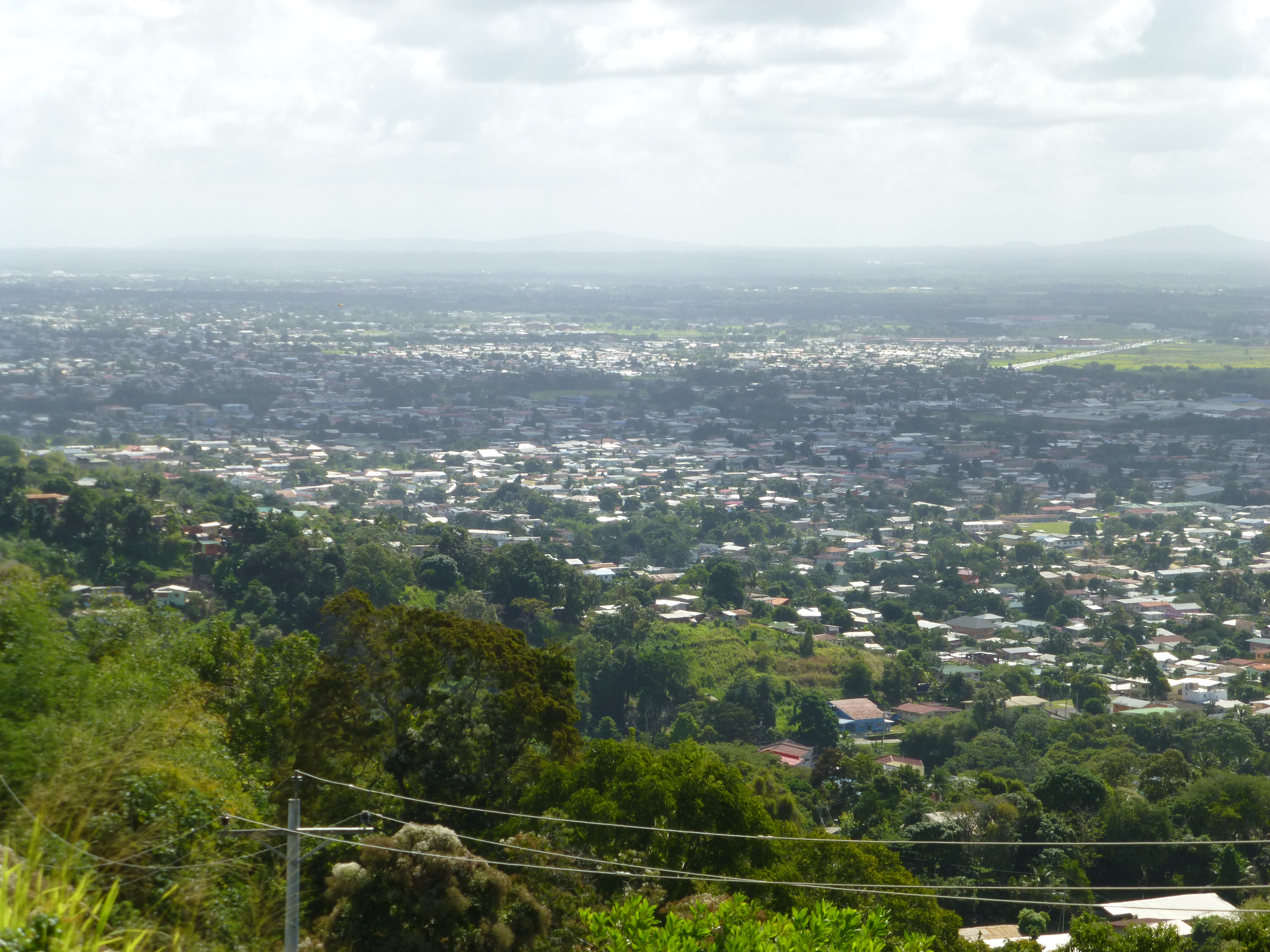 East-West-Corridor seen from Mount St. Benedict, St. Augustine, Trinidad. Front right: Tunapuna. Centre: El Dorado. Back left: Tacarigua.